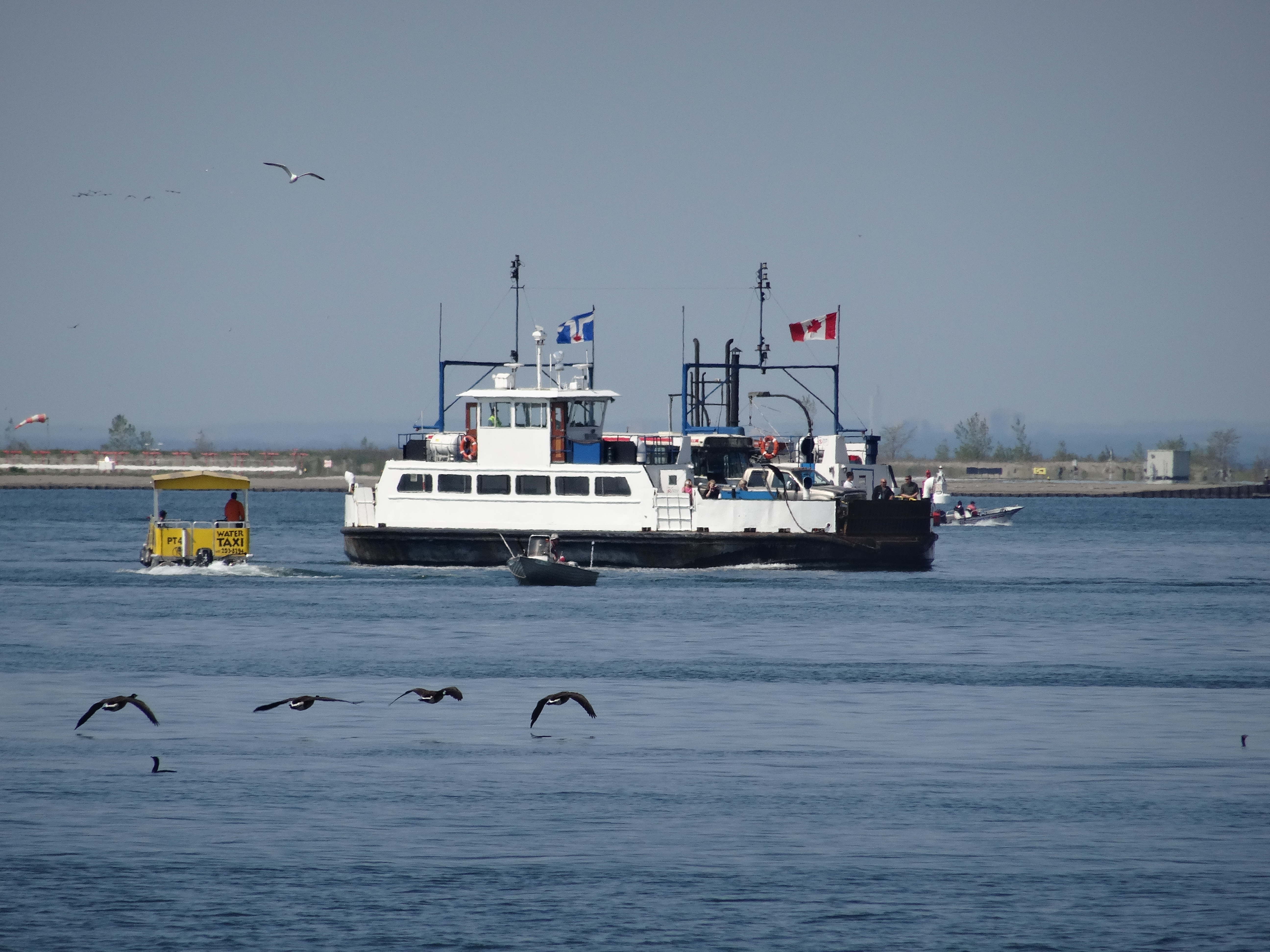 Ferries in Toronto's harbour, 2015 05 28 (3)